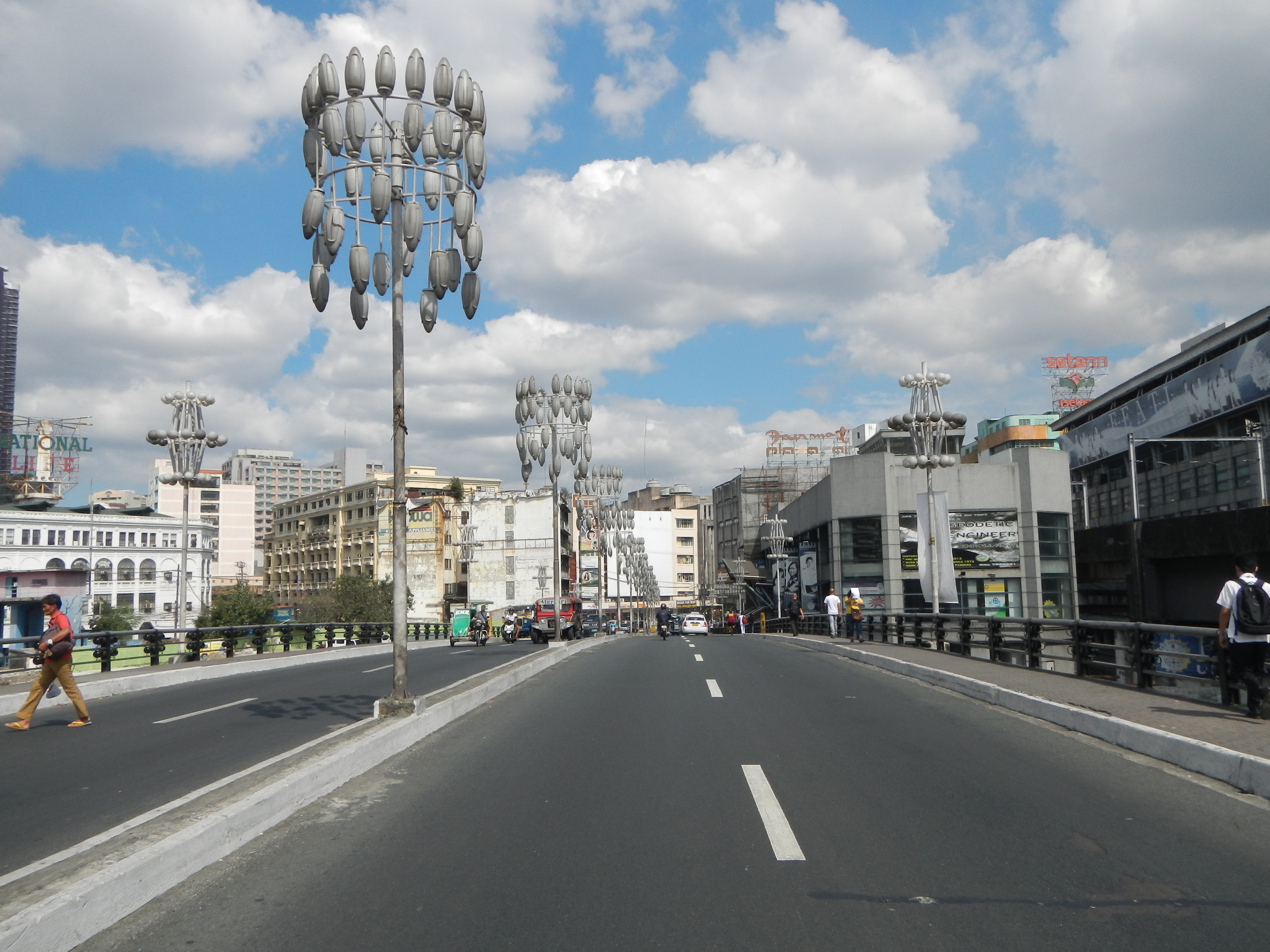 Upload Wizard photos (general description of the landmarkds, angle by angle photography of the city, town, rivers, bridges and interesting points) - Escolta Street[1] beside the a) Santa Cruz Bridge [2] connecting the district of Santa Cruz from Plaza Goiti to Arroceros Street in the old city center of Manila renamed as MacArthur Bridge after General Douglas MacArthur a simpler reinforced concrete beam bridge; the b) FEATI University, Barangay 303 Zone29 Hall [3].